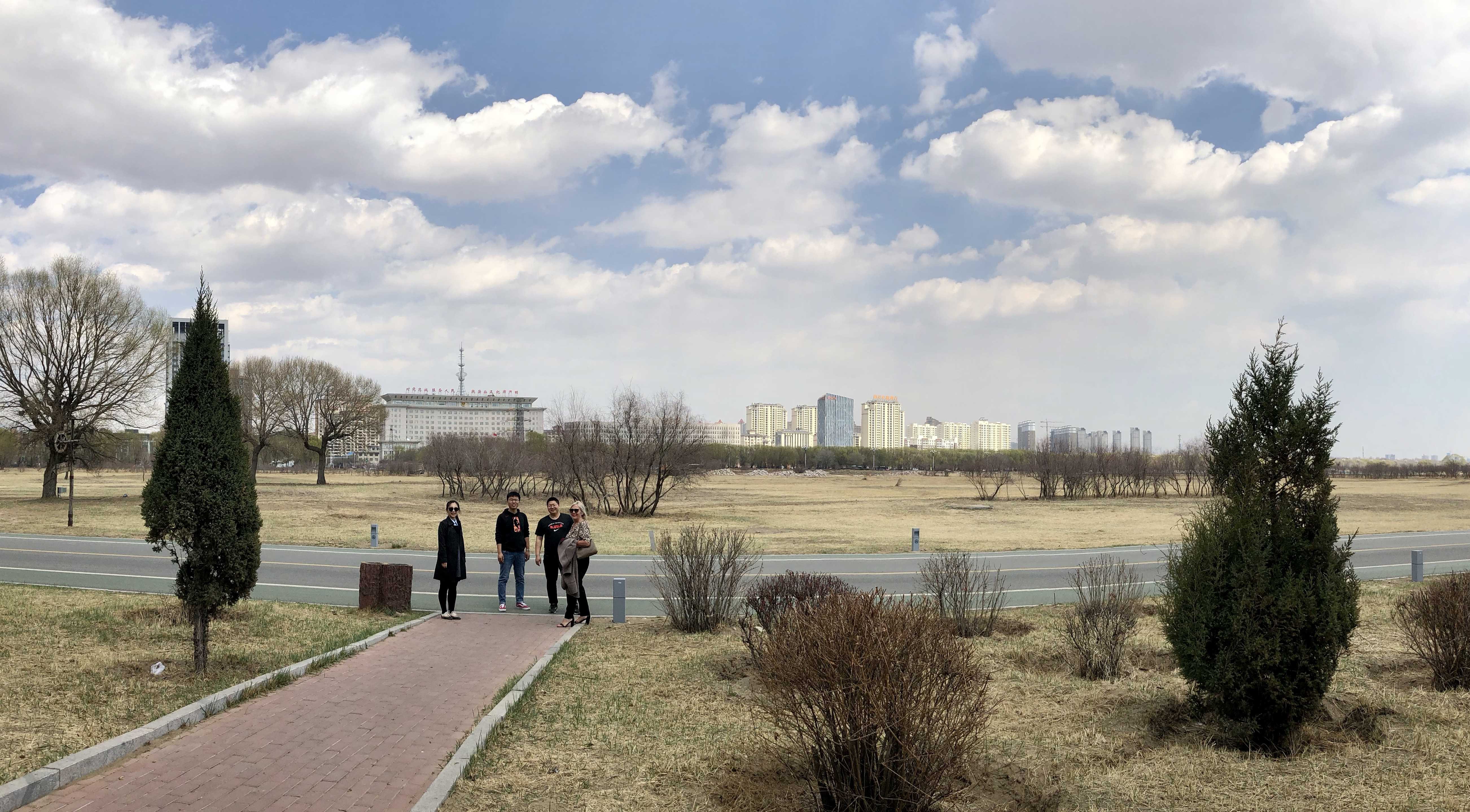 Saihantalah Grasslands Park, central Baotou. Reputedly one of the largest urban parks in China and home to 30 bird and animal species.